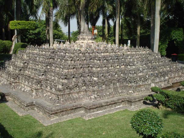 A picture of the replica of the Borobudur Temple of Indonesia, which is found in the Window Of The World in Shenzhen, China